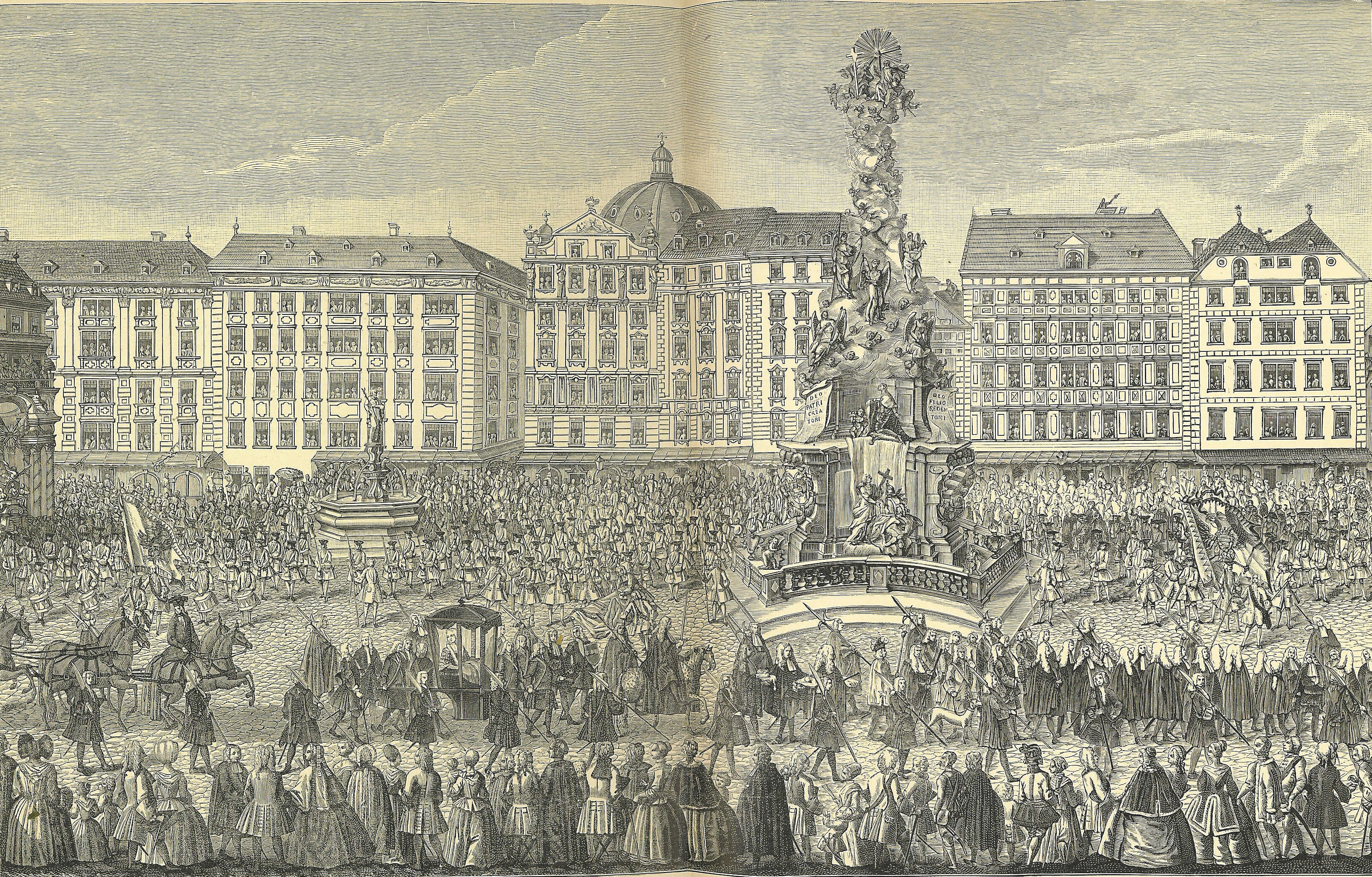 "The Oath of Fealty to Maria Theresa as Archduchess of Austria on November 22, 1740. From Georg Christoph Kriegl's 'oath of fealty,' Vienna, 1742. (After the original in the Germanic National Museum at Nürnberg.)"